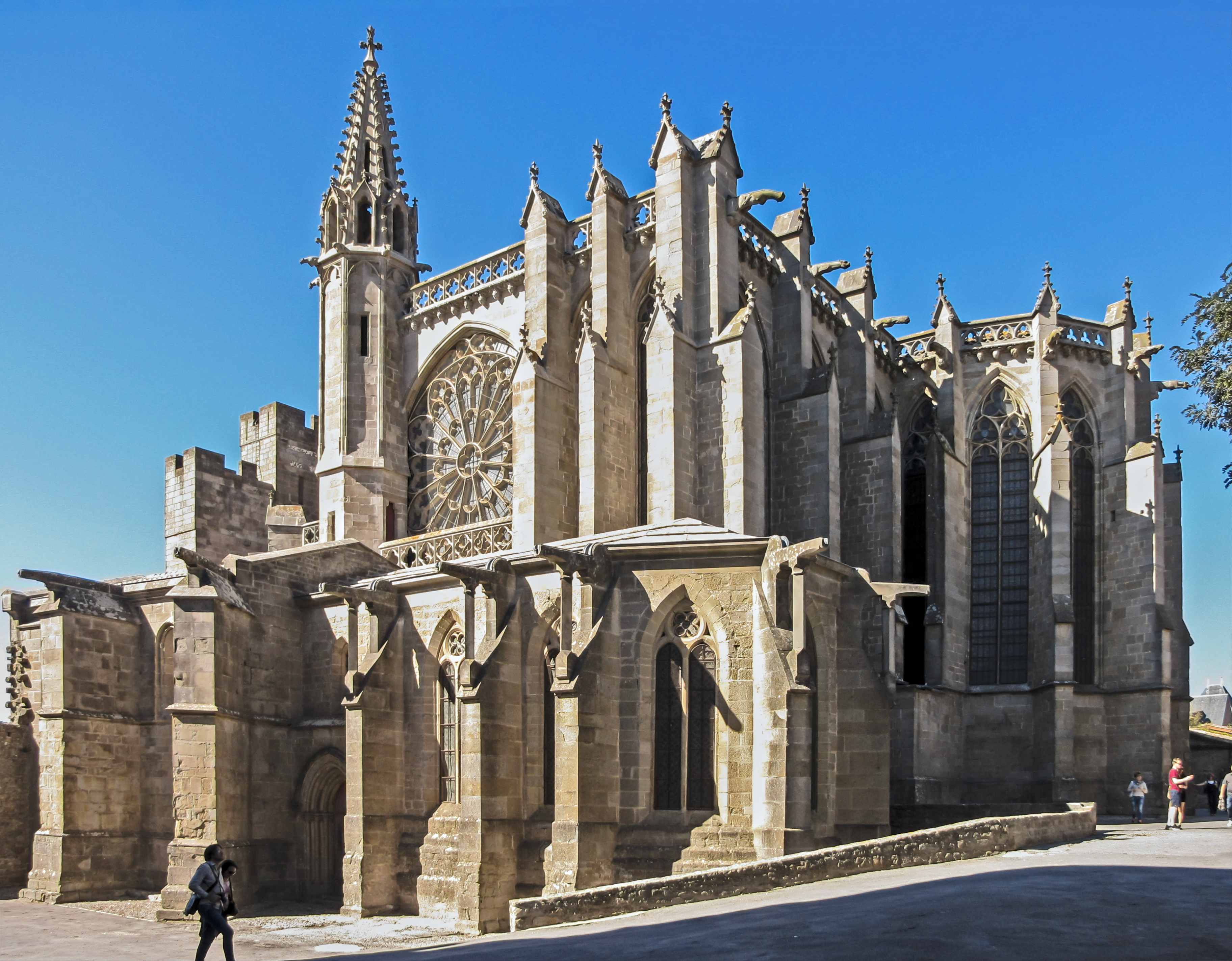 Basilique Saint-Nazaire in Carcassonne, seen from South East.